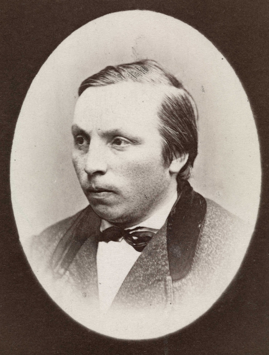 Walter Scott Dahl (21 February 1839 – 4 September 1906) was a Norwegian lawyer and a politician for the Liberal Party.